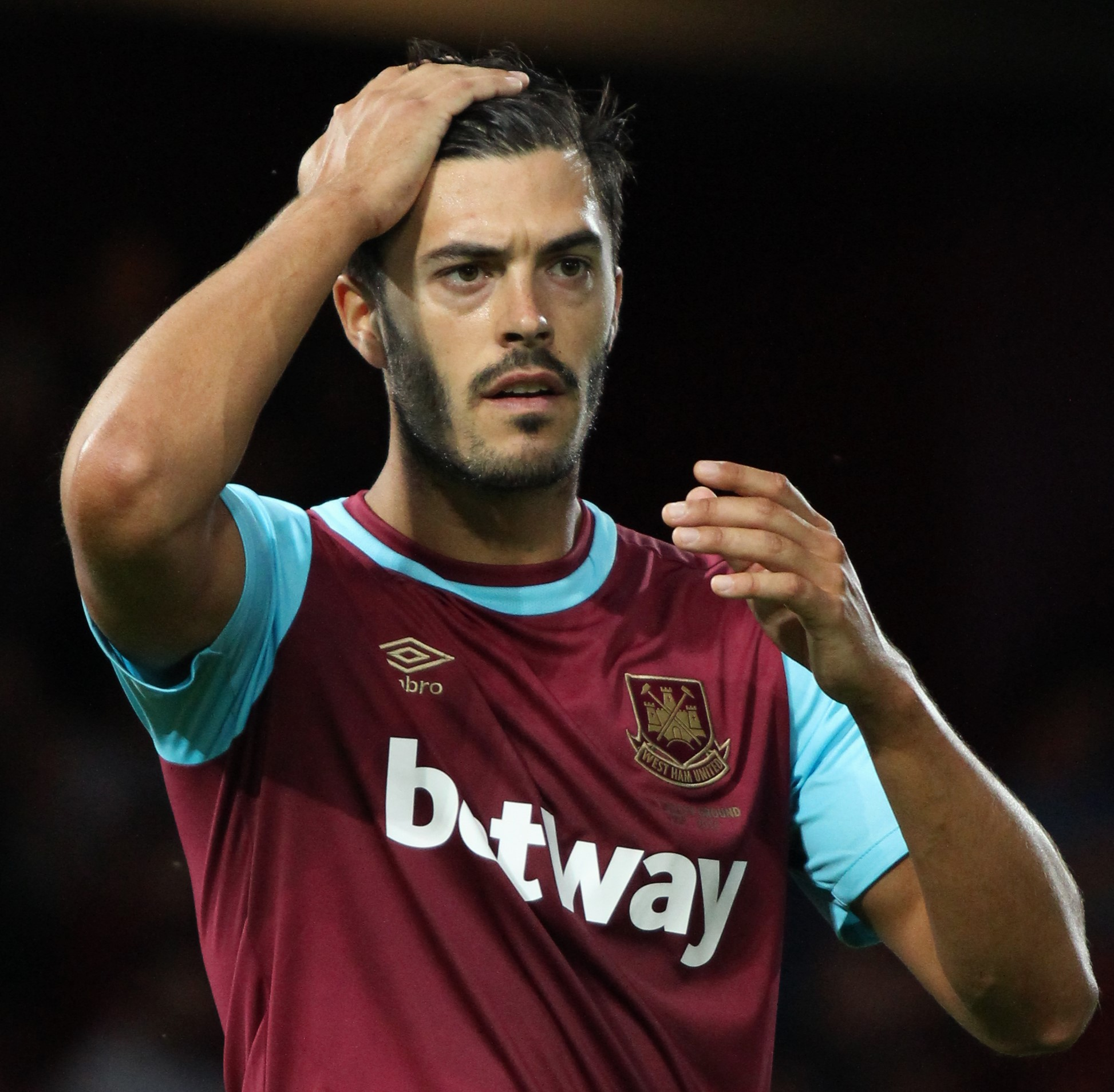 James Tomkins of West Ham during the game against Birkirkara.